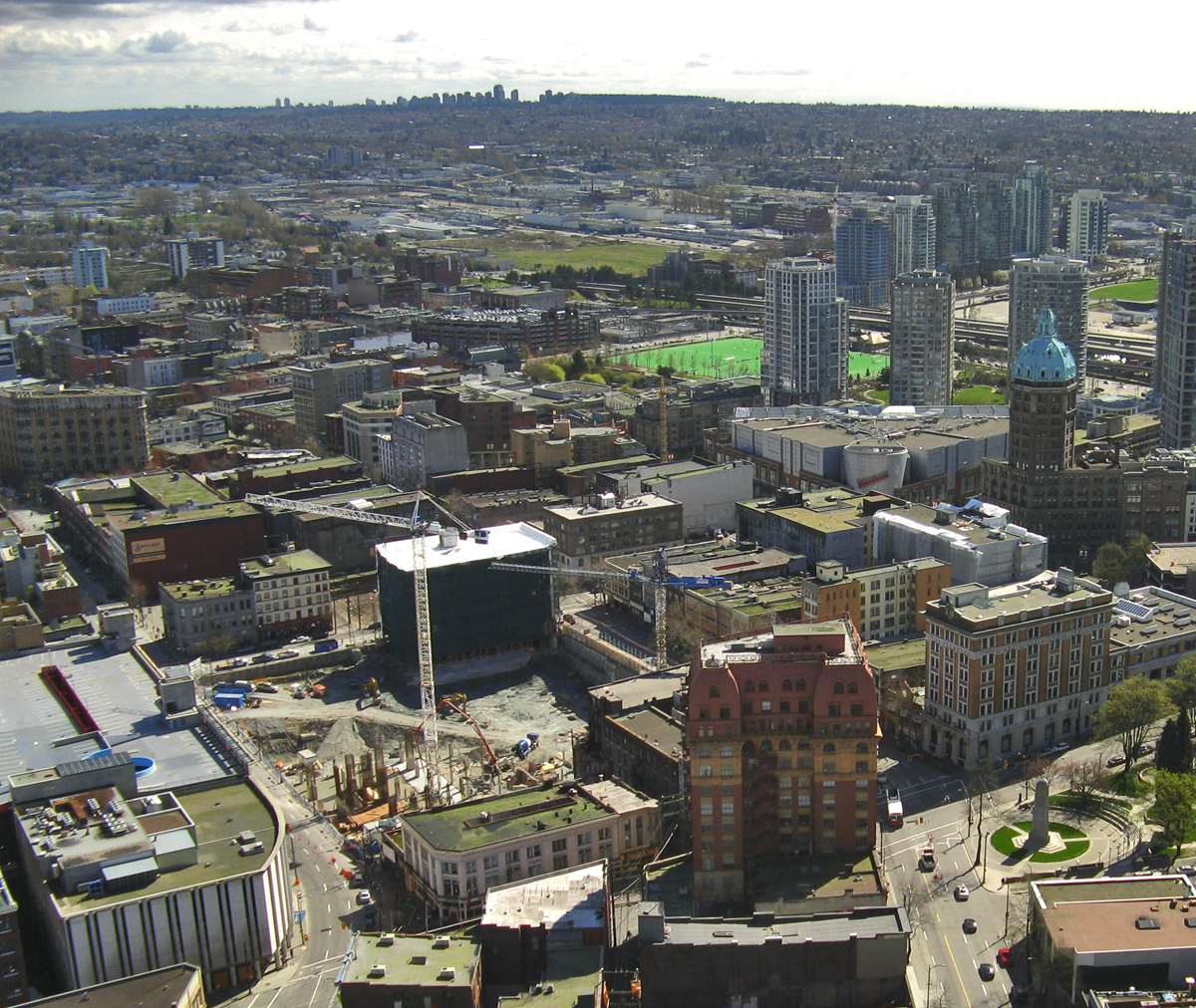 The Downtown Eastside neighbourhood of Vancouver, Canada. Picture taken from the Harbour Centre skyscraper.